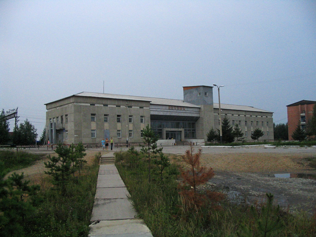 Train station in Fevralsk town, Amur region, Siberia, Russia.